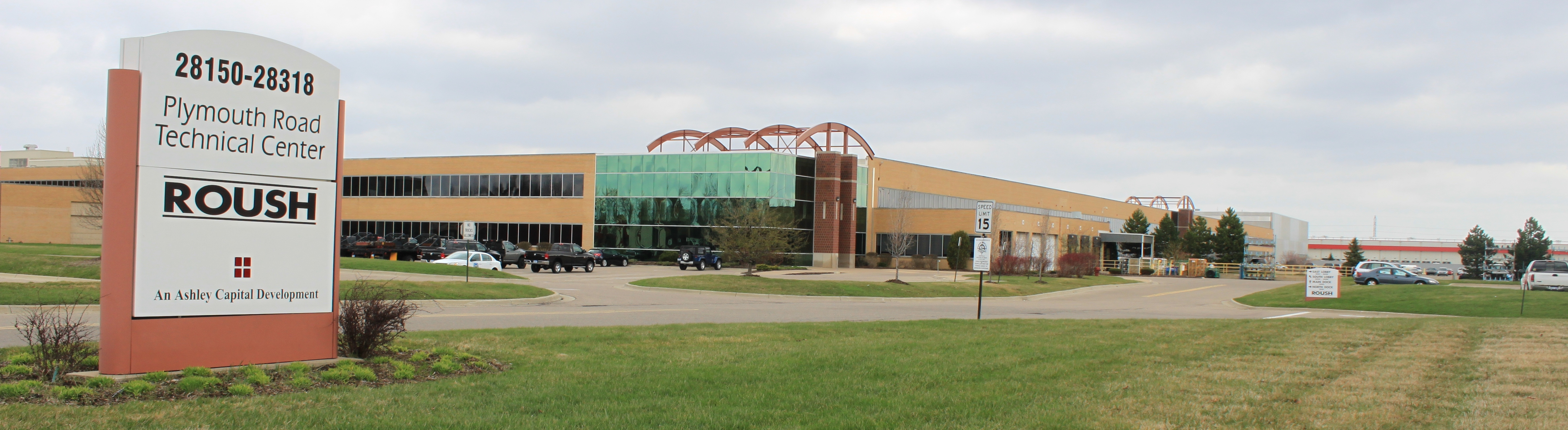 Roush Performance Vehicle Facility, 28156 Plymouth Road, Livonia, Michigan